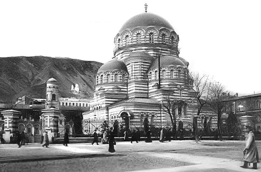 Old postcard of the Alexander Nevsky Cathedral, Tiflis. 1897.